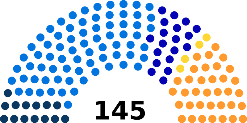 Seats diagramme of Swiss National Council (1887)